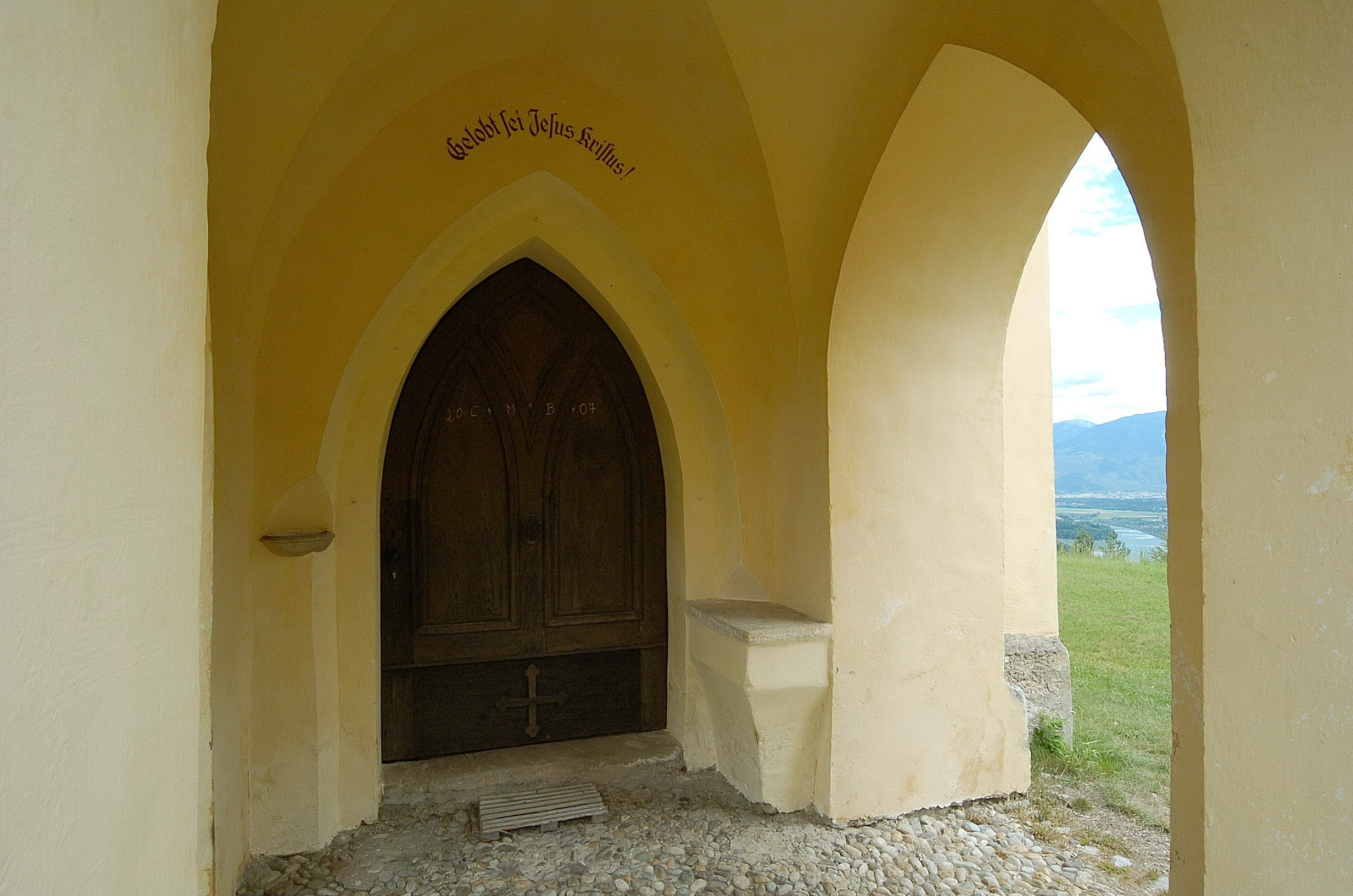 Portal beneath the steeple of subsidiary church Saint Margaret at Sankt Margarethen, municipality Köttmannsdorf, district Klagenfurt Land, Carinthia / Austria / EU